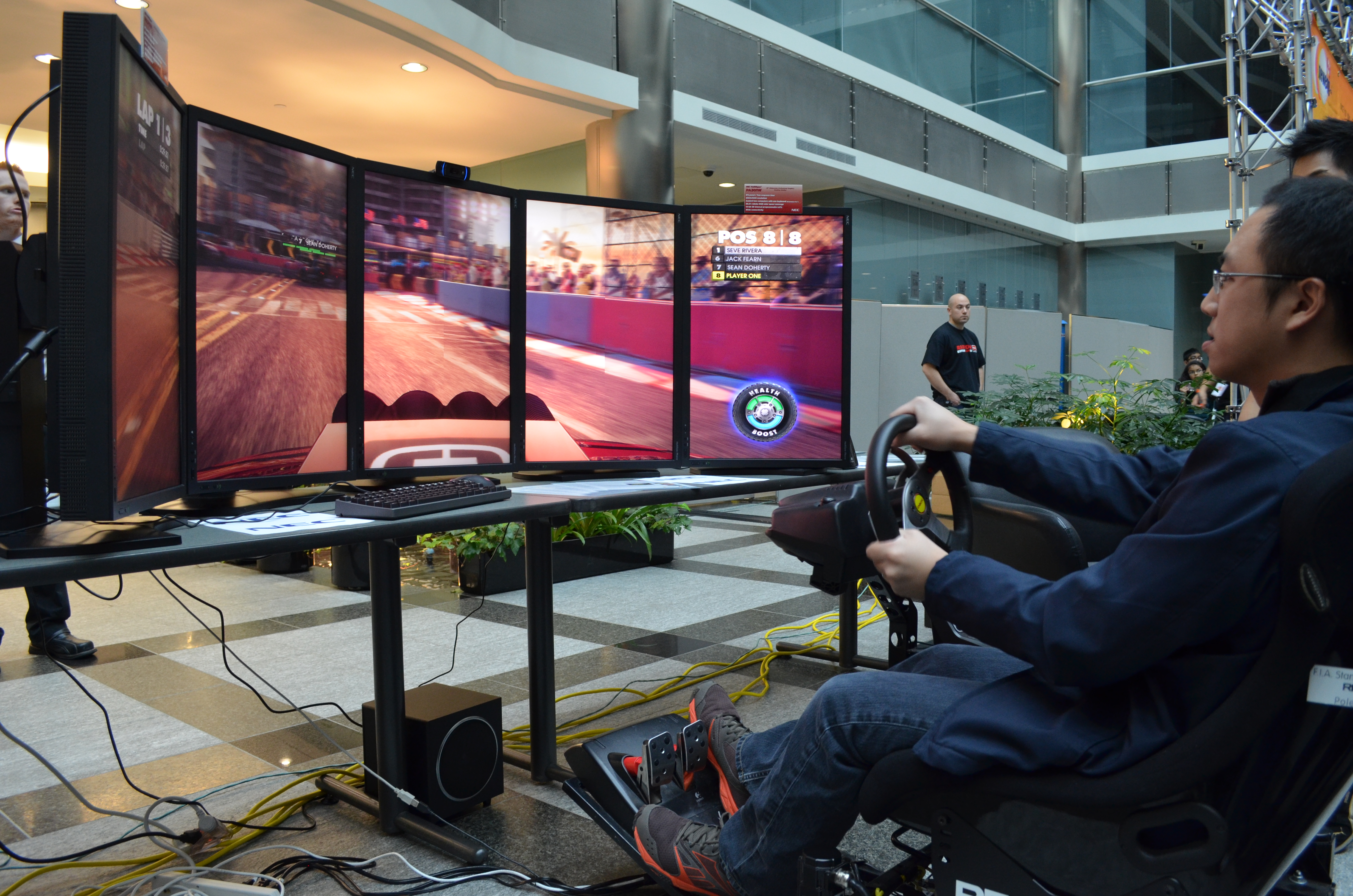 Multi-monitor set-up in Single Large Surface (SLS)-mode in 5x1 portrait configuration based on AMD Eyefinity shown at AMD ExtravaLANza in Toronto.